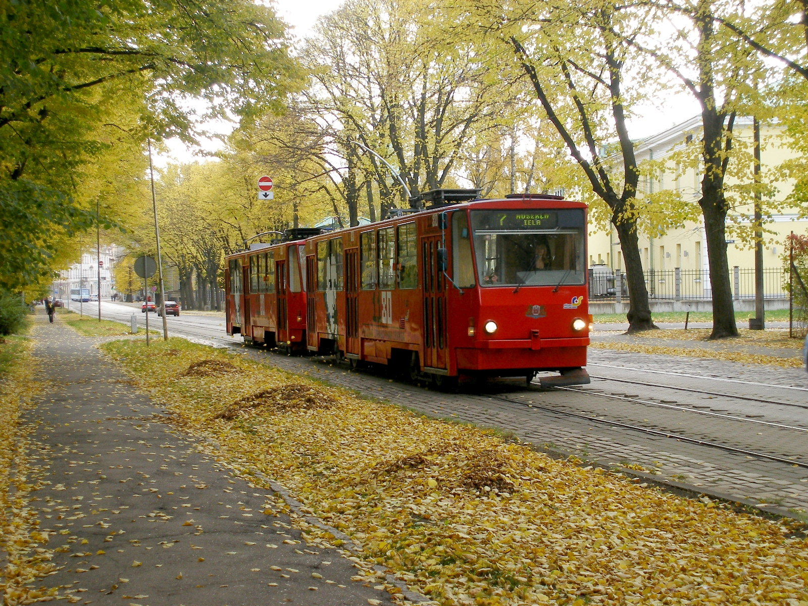 Trams T6B5 in Riga